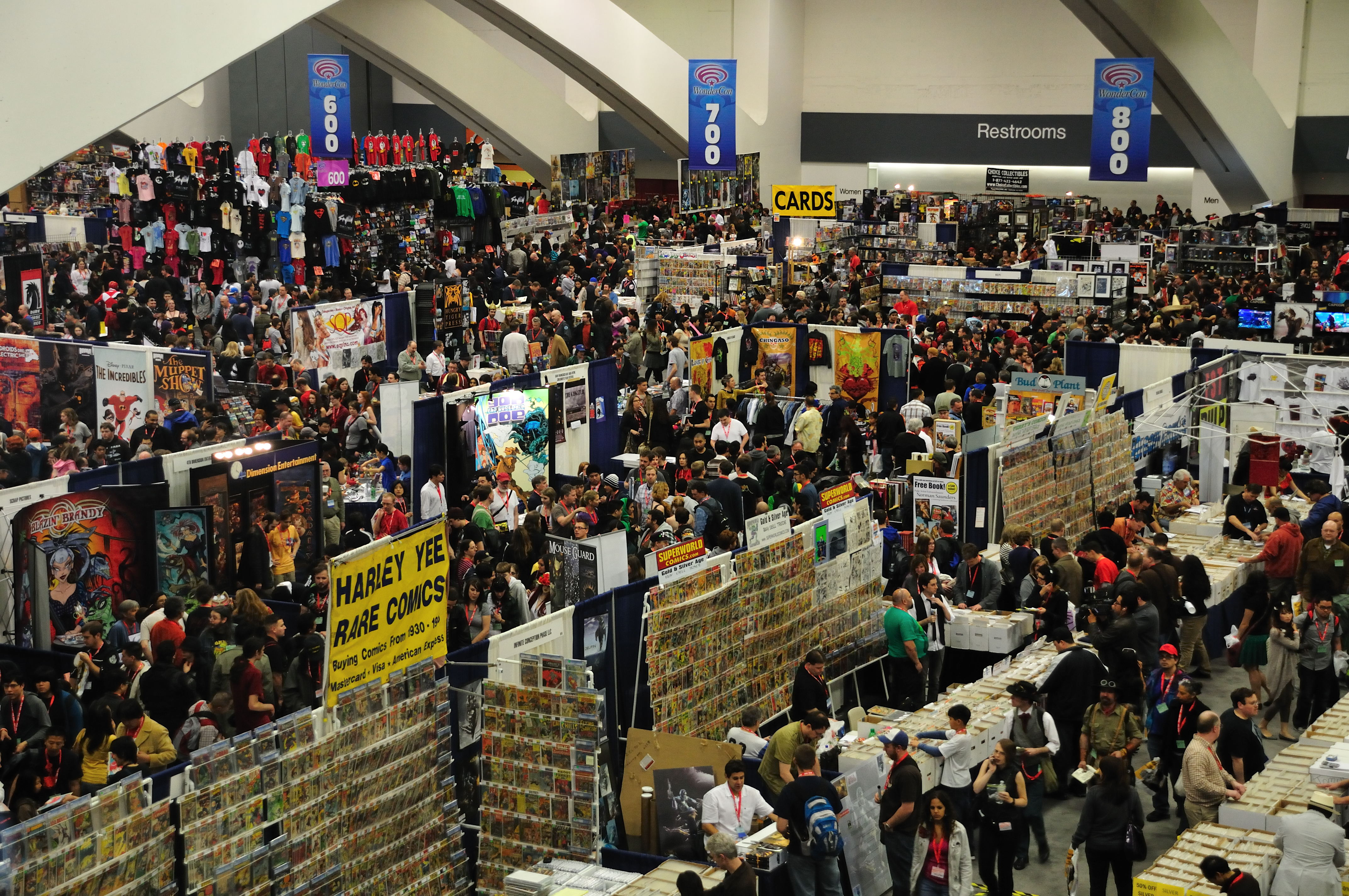 Around the floor, WonderCon 2010